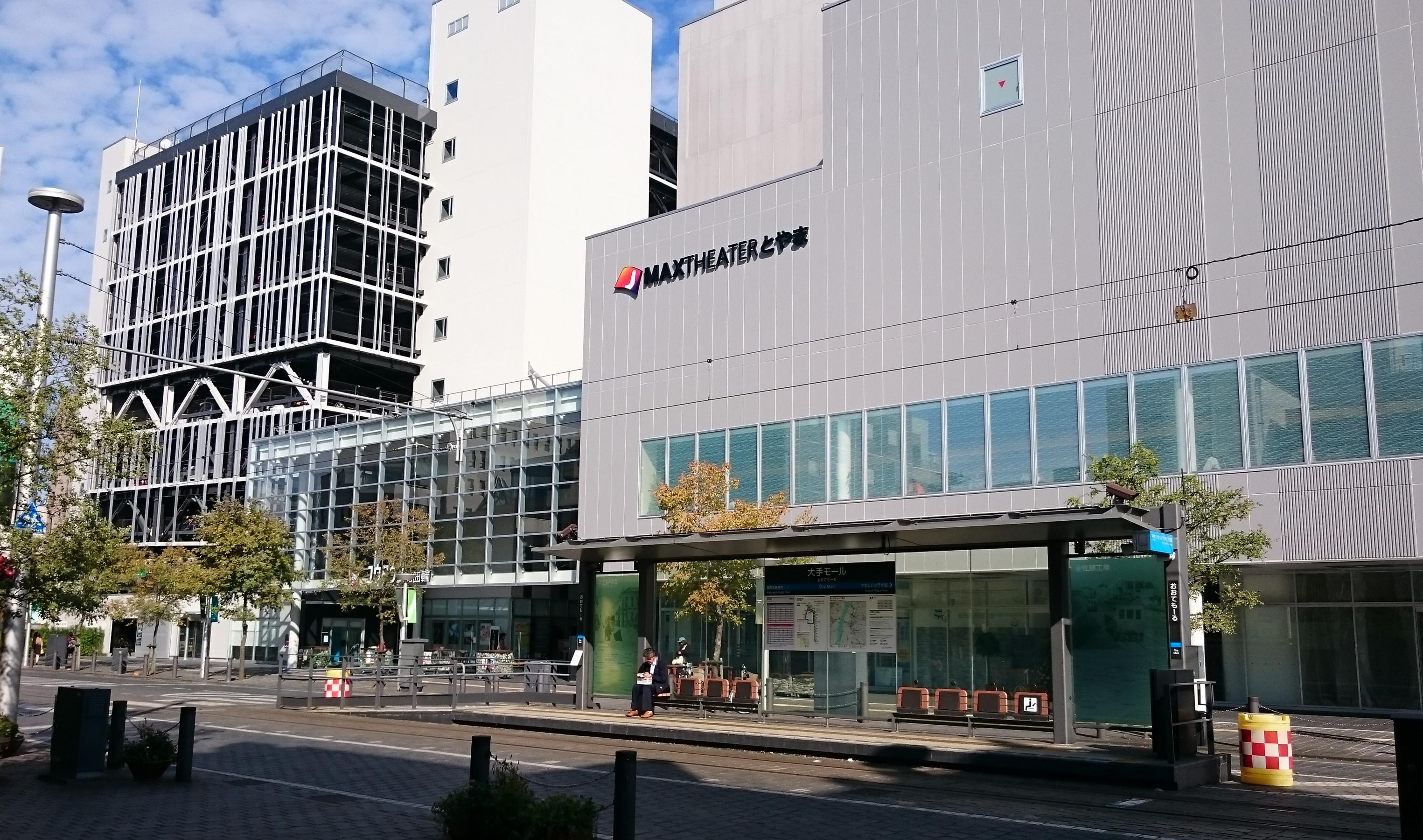 Youtown Sogawa